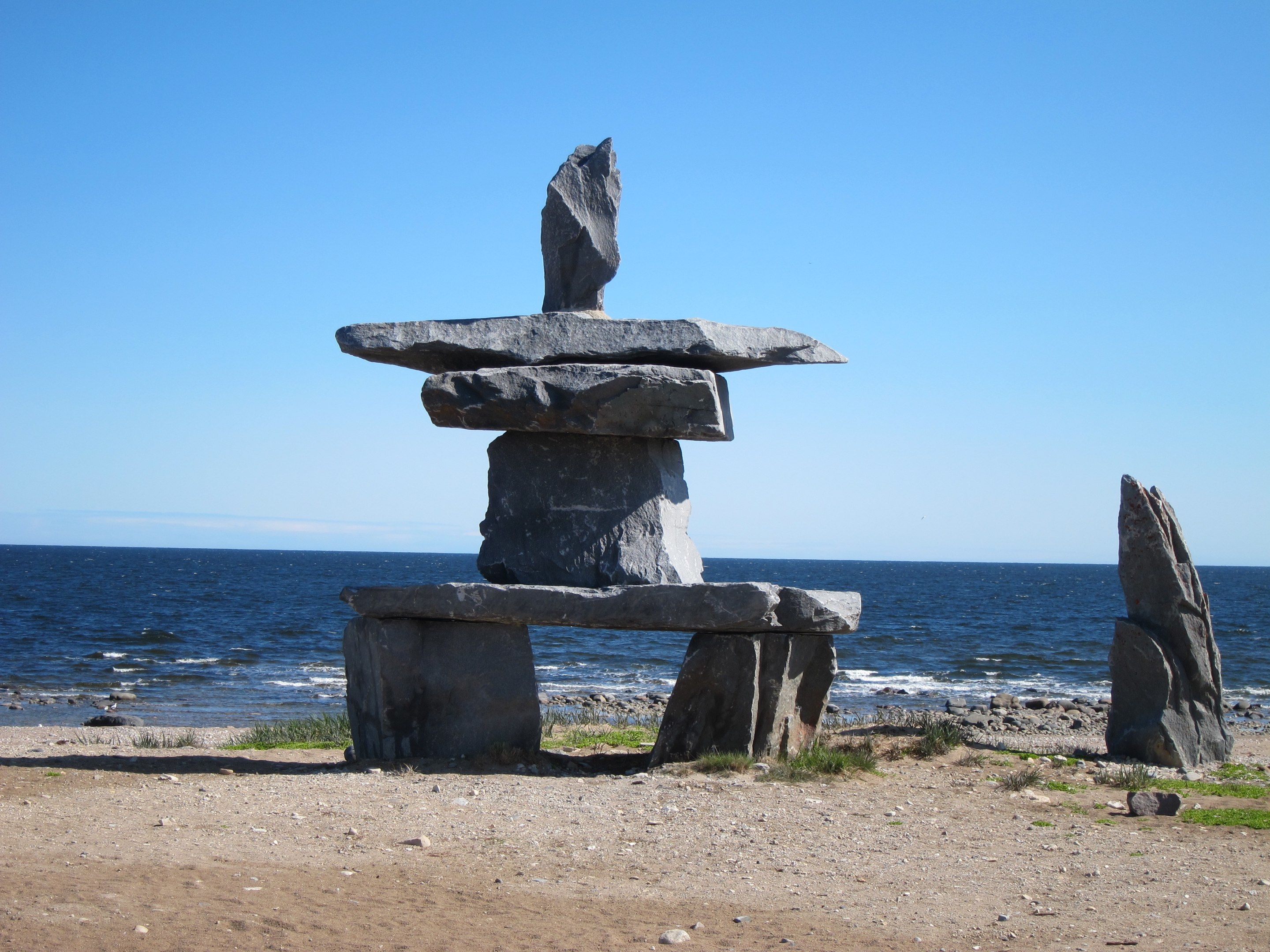 Inukshuk on shores of Hudson Bay, Canada